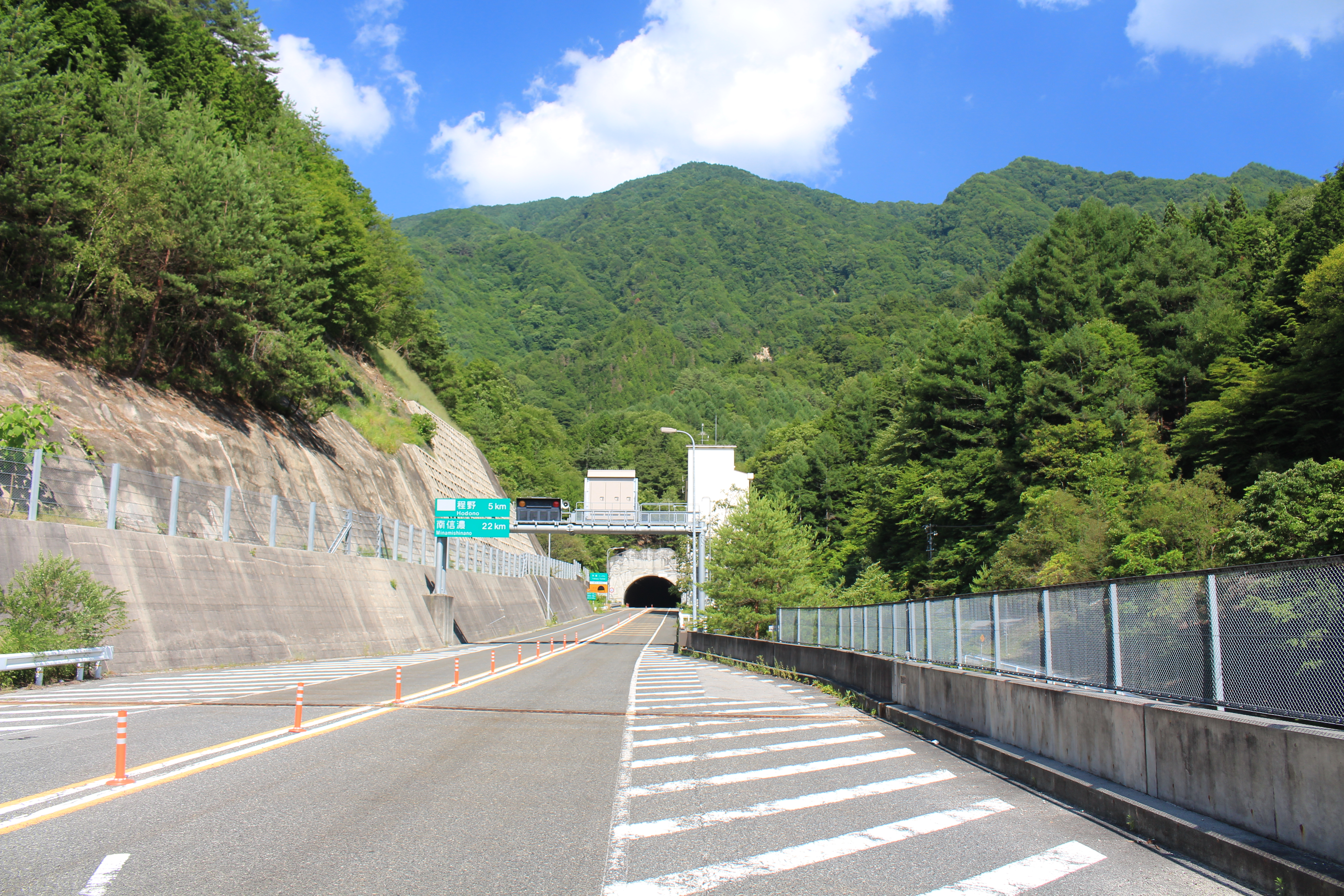 Yahazu Tunnel of San-En-Nanshin Expressway and Ina Mountains in Iida, Nagano prefecture, Japan.